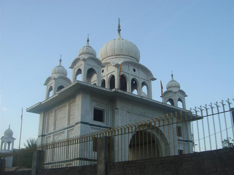 Gurdwara Chatti Patshahi, Kathi Darwaza, Rainwari, Srinagar, Kashmir